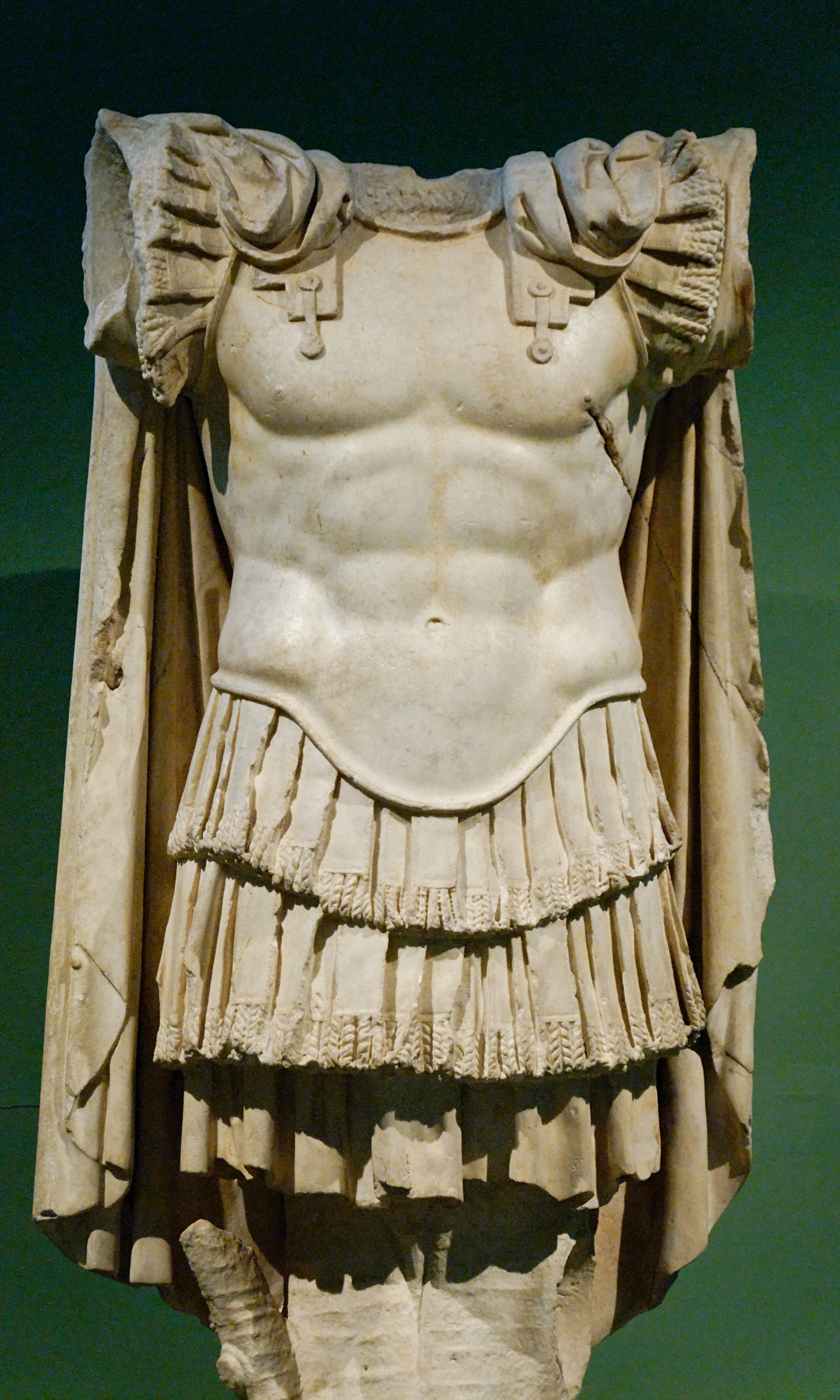 Military trophy. Parian marble, Roman artwork of the Augustean period. From the Horti Sallustiani, 1887.